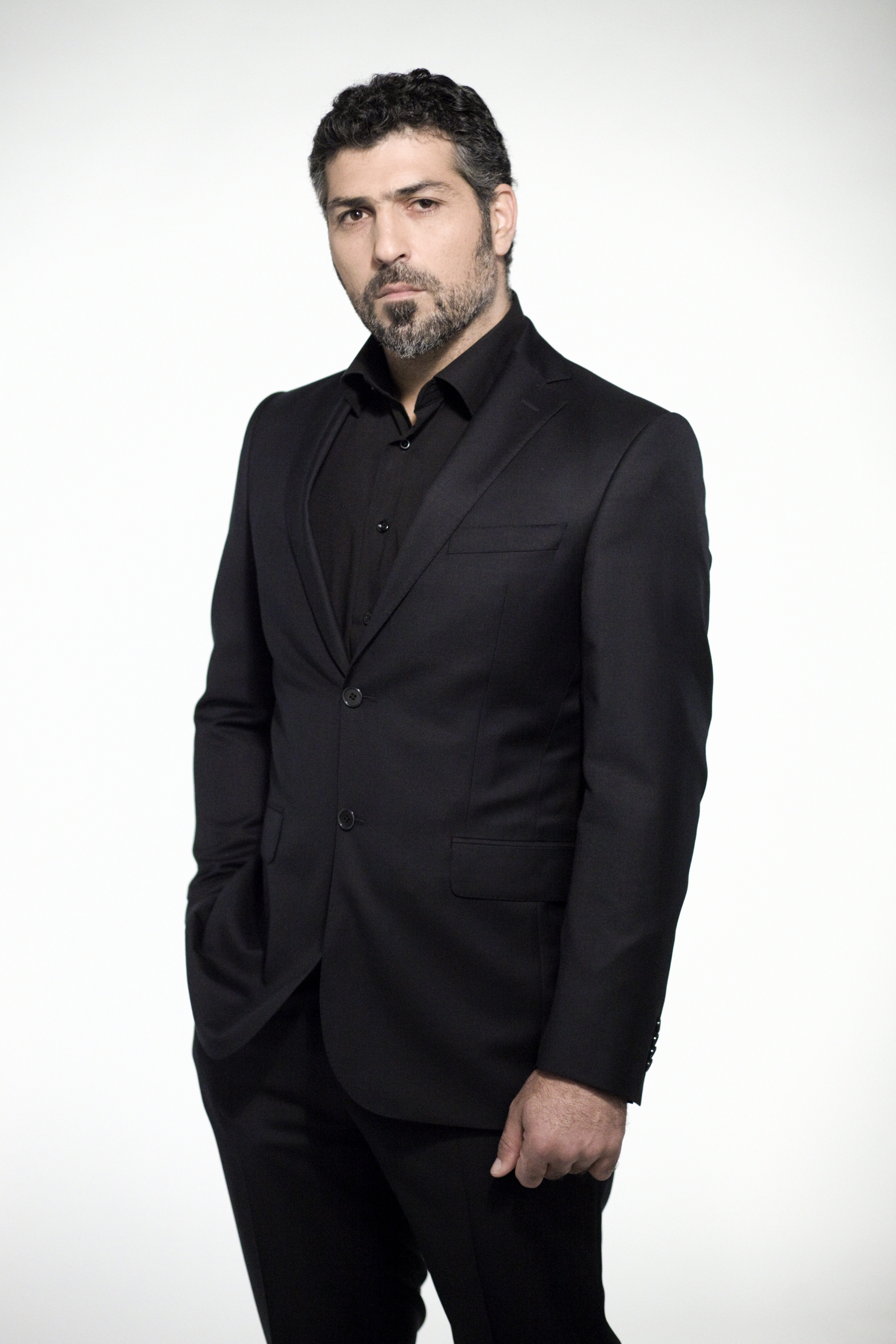 Channel 10 News (Israel) Journalist